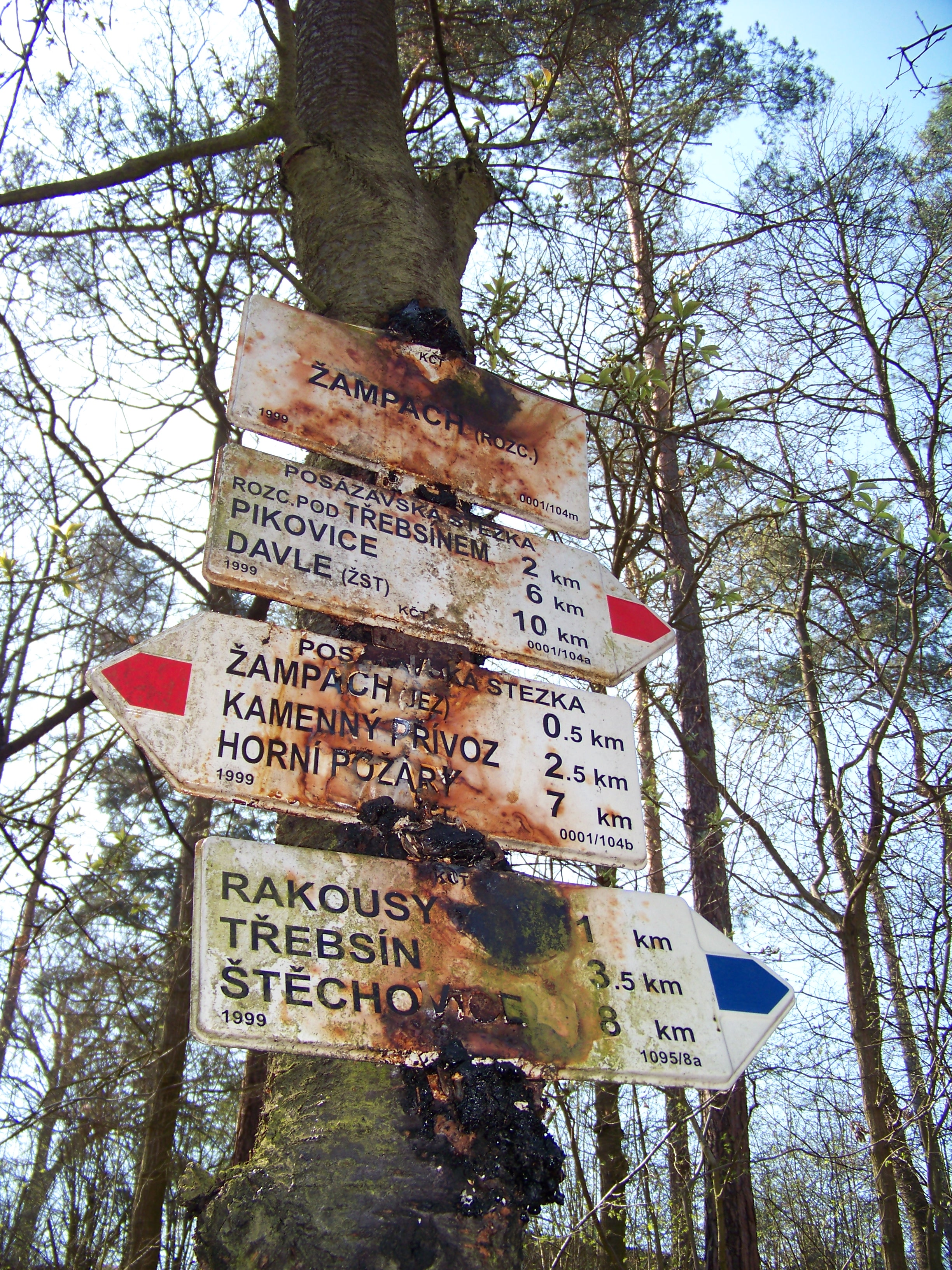 Kamenný Přívoz-Žampach, Central Bohemian Region, the Czech Republic. Hiking signs.